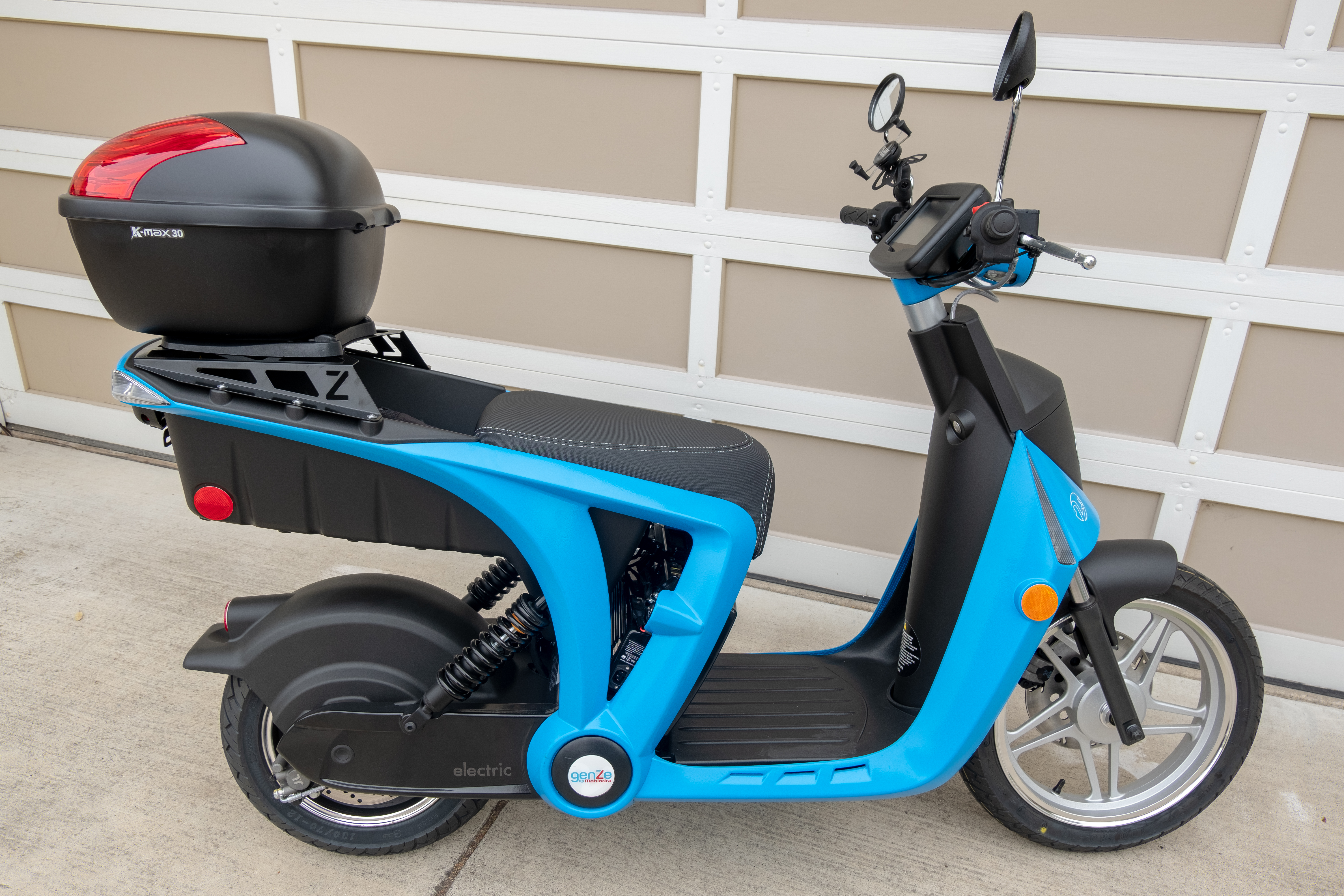 Blue GenZe Electric Scooter 2.0s with K-Max 30 topcase.